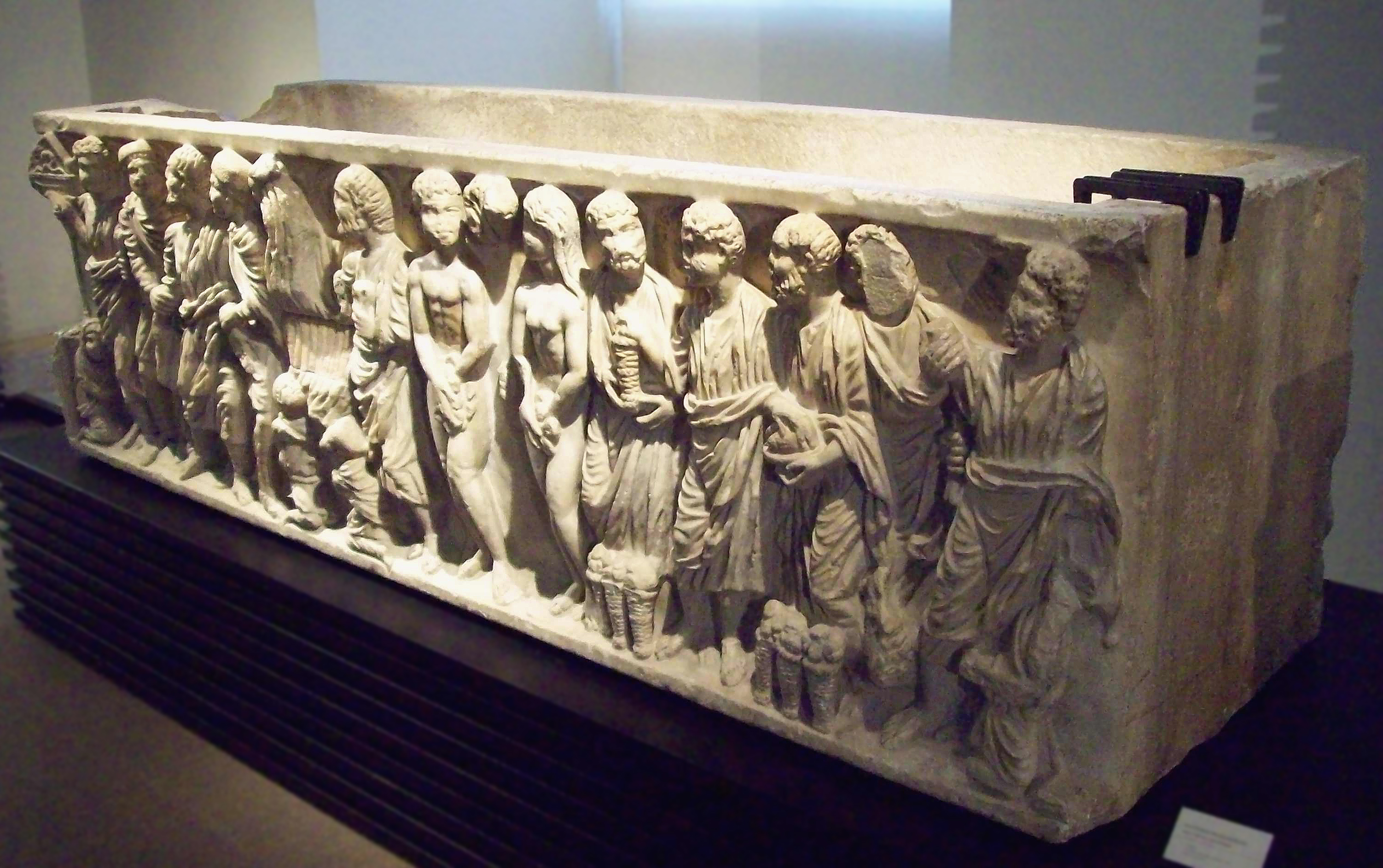 Early Christian artwork with a high-relief representing scenes from the Old and the New Testament.